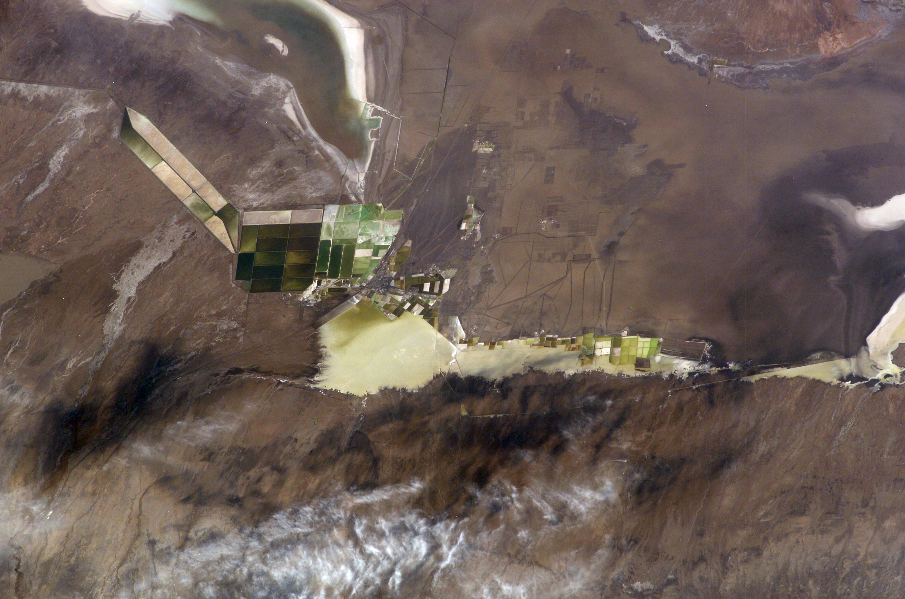 A photograph from the International Space Station of Qarhan, Golmud Co., Haixi Prefecture, Qinghai Province, China. To the top right is the SE corner of Lake Dabusun; to the bottom right is Tuanjie Lake. Surrounding both are their salt pans for collecting valuable minerals, particularly potash / potassium. Focal Length: 180mm. Spacecraft nadir point: 39.3° N, 92.8° E; photo center point: 37.0° N, 95.5° E.